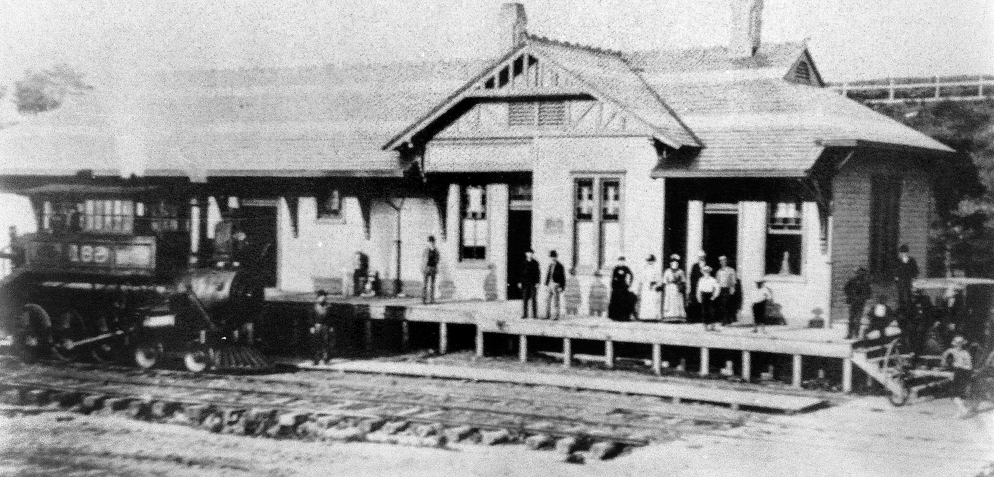 Romney Depot, located northwest of Romney in the U.S. state of West Virginia. In the left of photograph is the Davis Camel locomotive, built in March 1873 at Mount Clare Shops in Baltimore, Maryland.